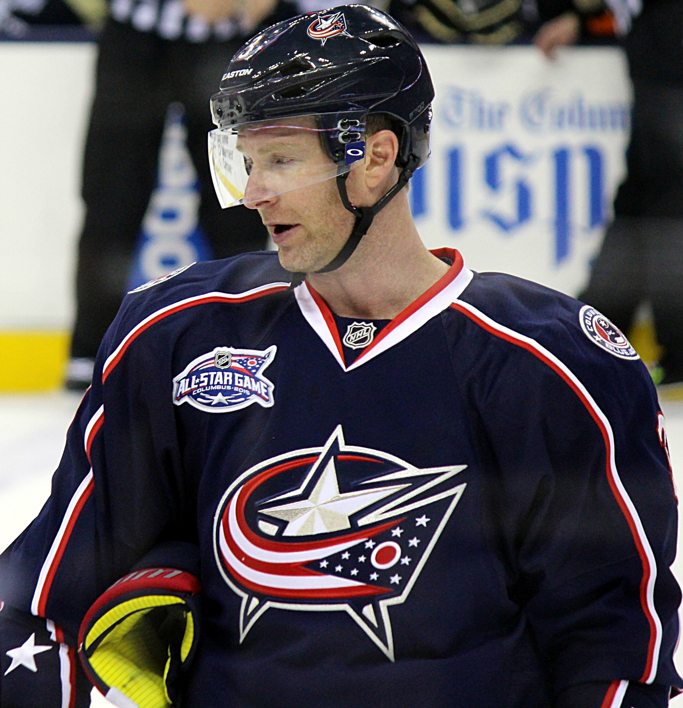 Columbus Blue Jackets defenseman Jordan Leopold during a game against the Pittsburgh Penguins, December 13, 2014, at Nationwide Arena in Columbus, OH.